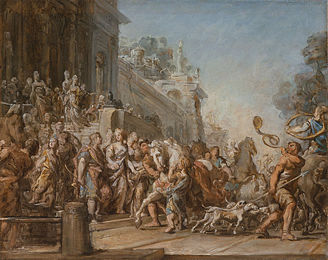 The Departure of Dido and Aeneas for the Hunt